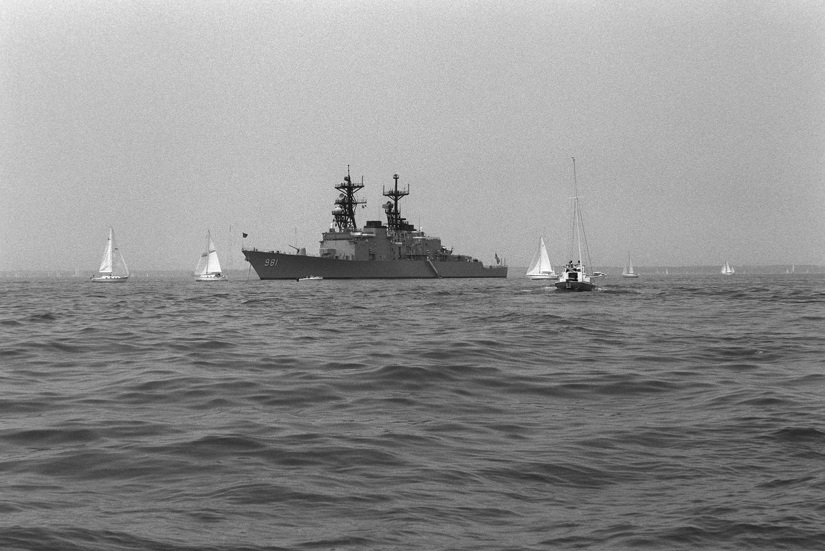 A starboard bow view of the destroyer USS JOHN HANCOCK (DD 981) anchored in the Chesapeake Bay near the US Naval Academy during Commissioning Week. Location: ANNAPOLIS, MARYLAND (MD) UNITED STATES OF AMERICA (USA)